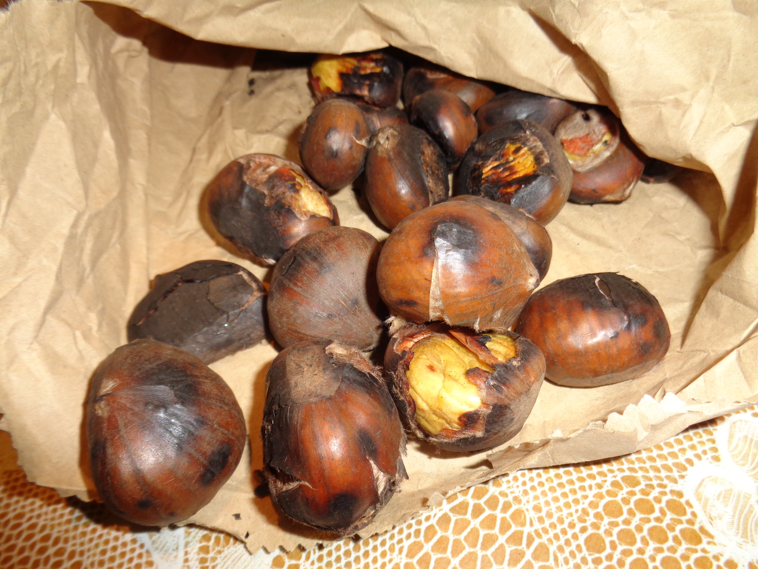 Roasted chestnuts from Međimurje, Croatia